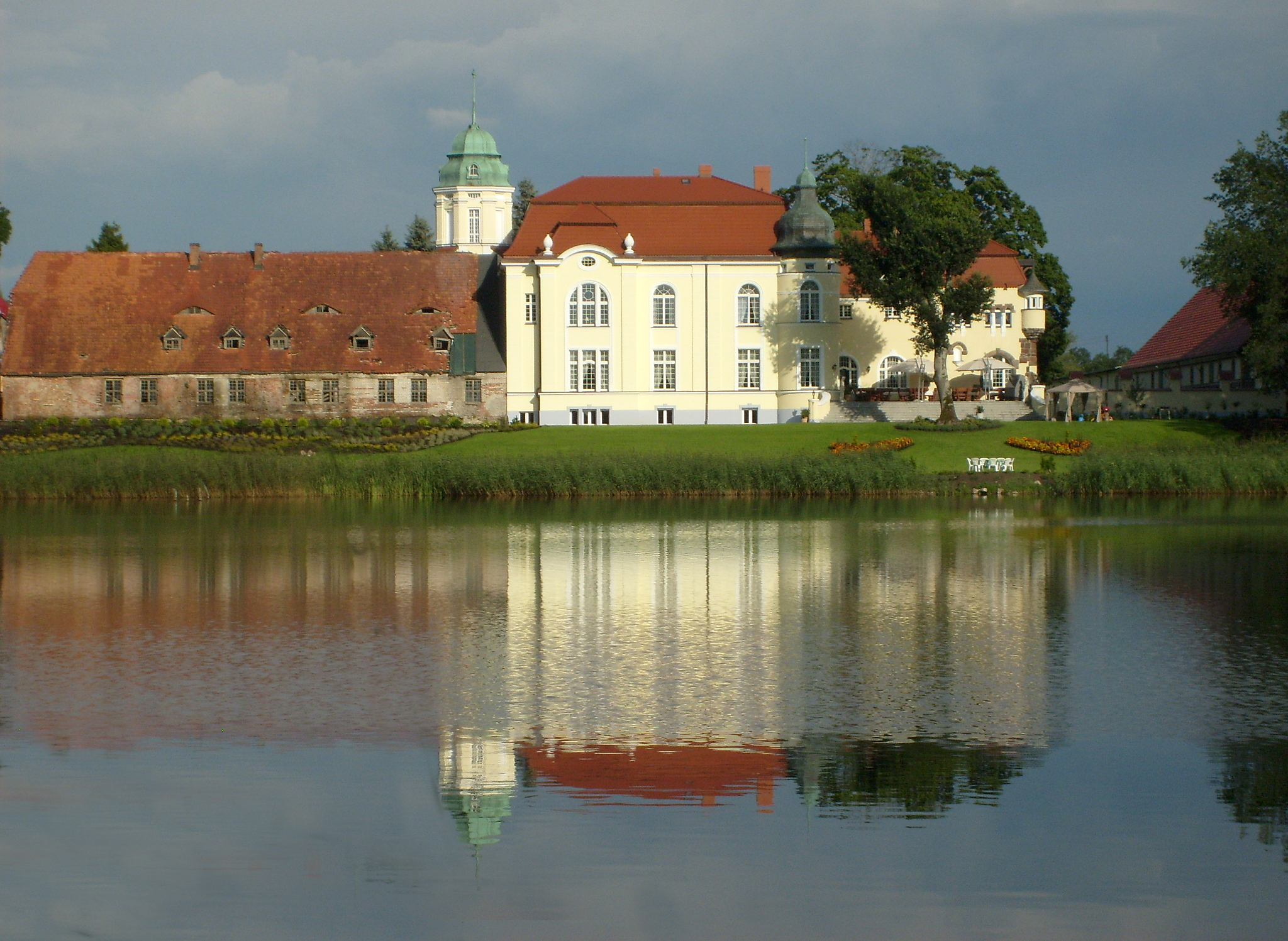 Renewed Mansion in Trzygłów (Poland), built in XVII century.